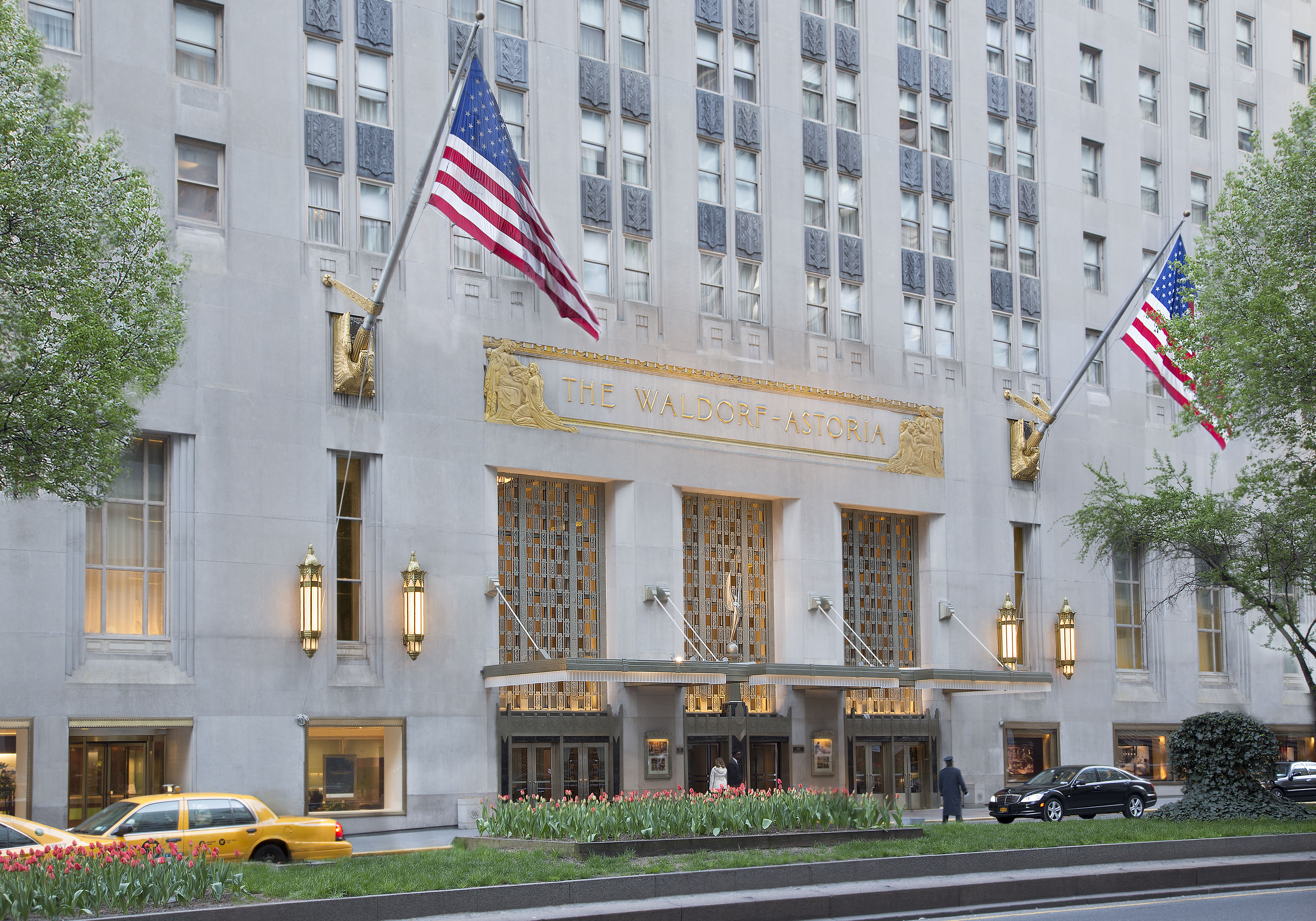 Waldorf Astoria Park Avenue